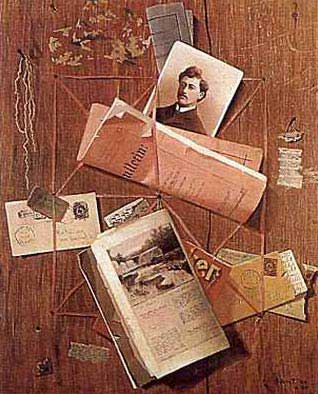 John Frederick Peto: "Letters", oil painting